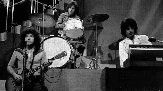 Italian band Formula 3, guests of the Italian show Tutto è pop, Turin, 1972